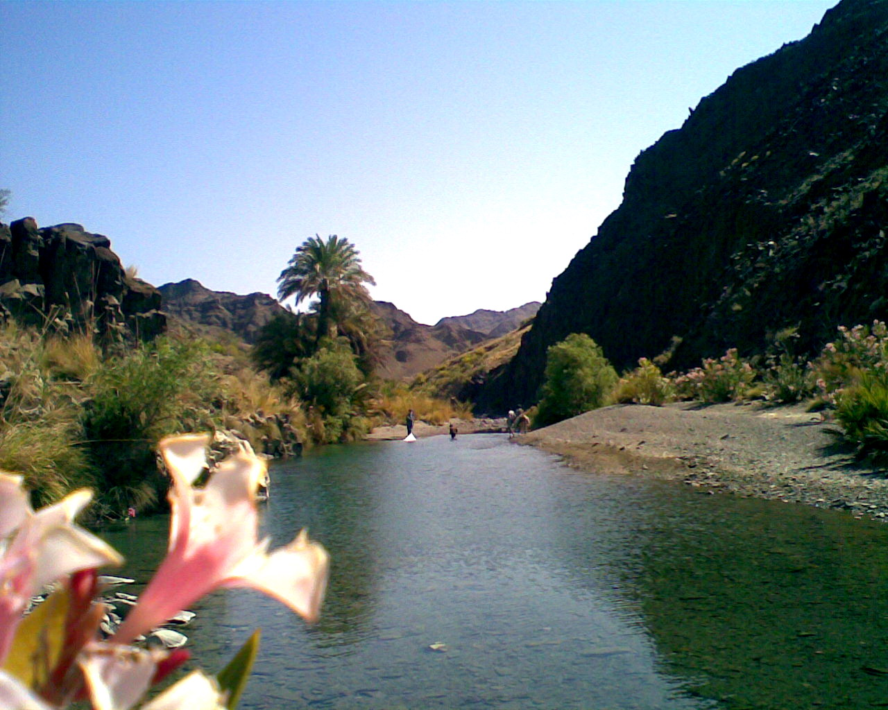 One of The Pic Of Zamuran